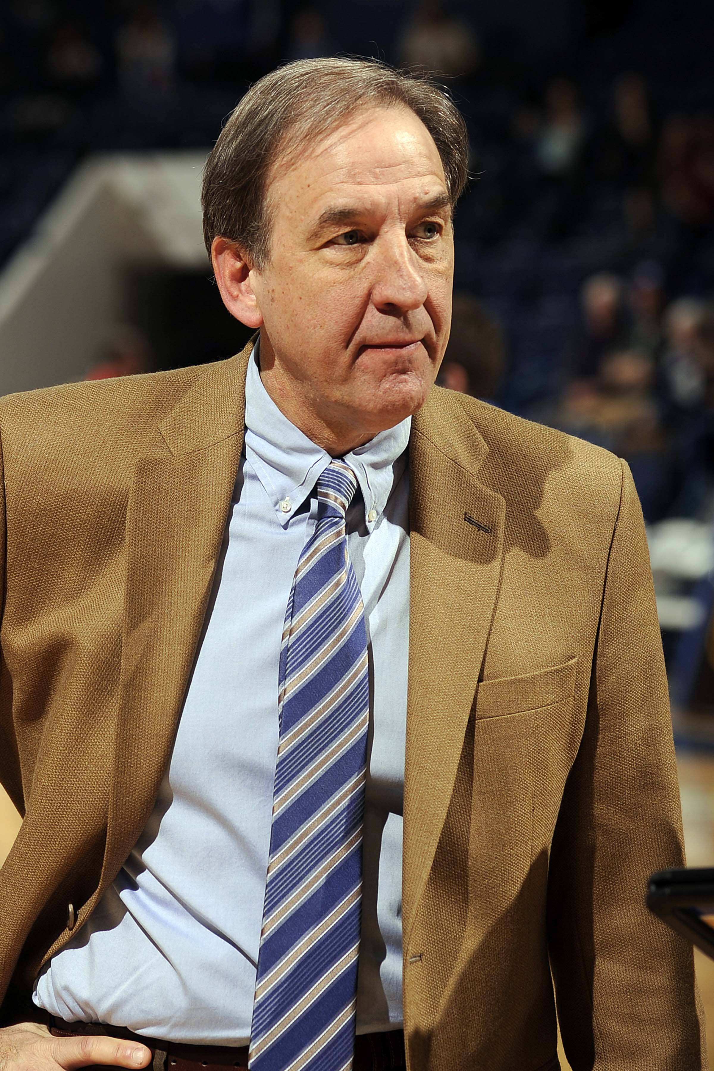 U.S. Air Force Academy men's basketball assistant coach Kurt Kanaskie.